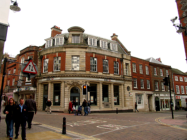 HSBC Bank Building: Newbury. This building situated north east of the church and north west from the Town Council Building is situated in the south western section of the grid square.